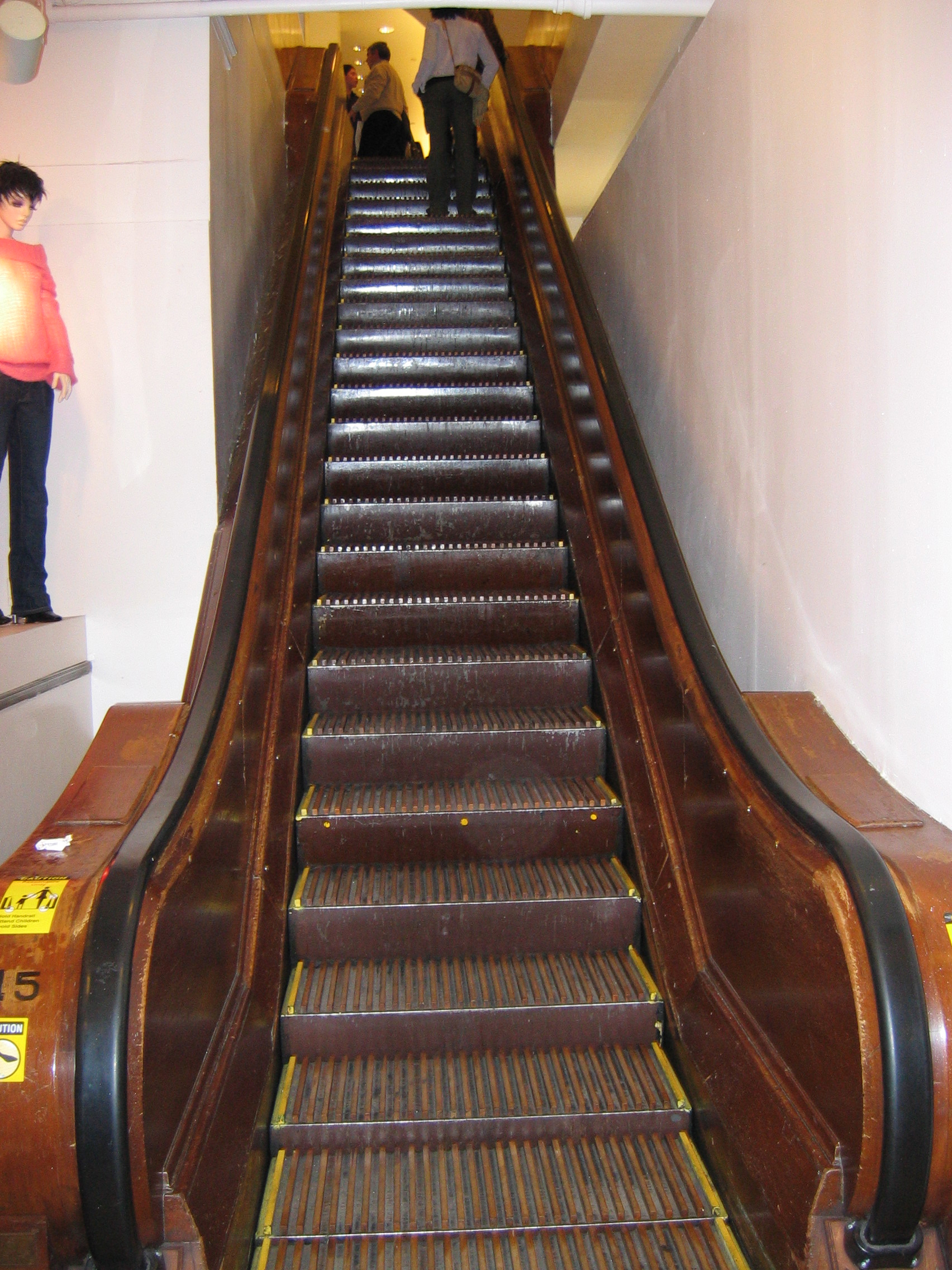 On the upper floors of Macy's in New York City, some narrow wooden escalators are still in operation.